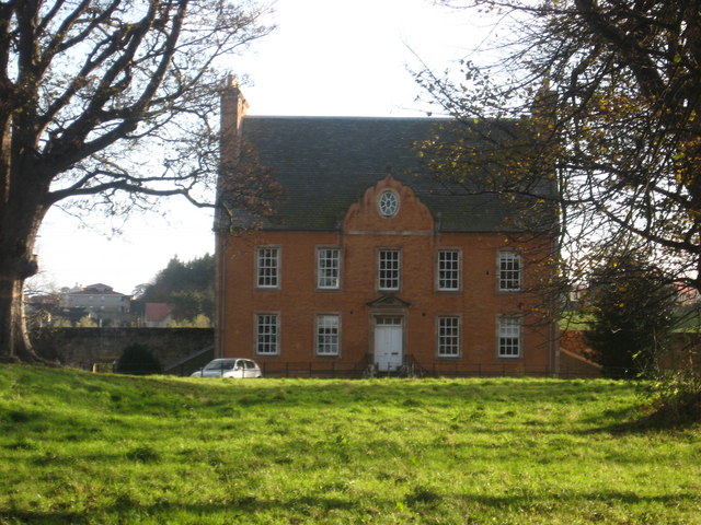 Historic Bankton House